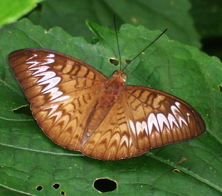 Tanaecia pelea from Kopeng, Central Java, Indonesia